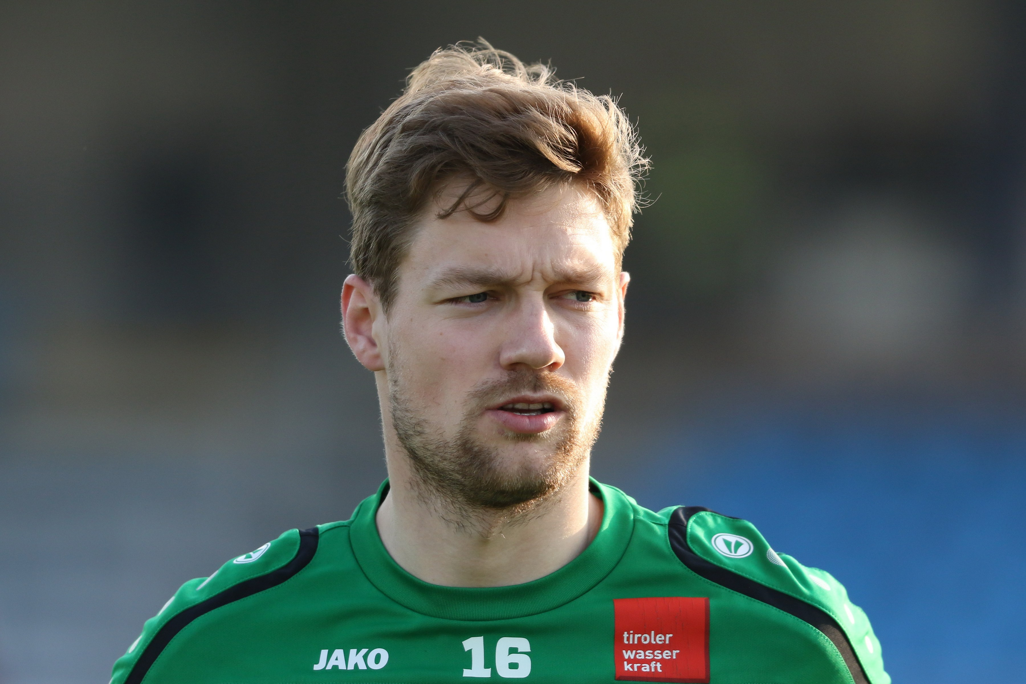 Match of the Erste Liga – SC Wiener Neustadt (blue/white shirts) vs. FC Wacker Innsbruck (green/black shirts) 0–2 (0–1) on 2016-04-11 in the Stadion in Wiener Neustadt – The photo shows Christoph Freitag.